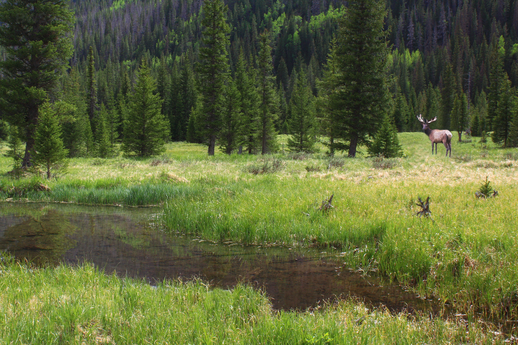 Rocky Mountain National Park, Colorado, USA, bull elk in meadow near the headwaters of the Colorado River